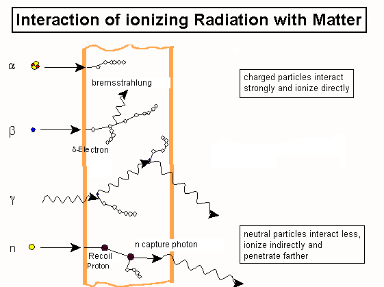 Interactions of alphas, betas, gammas, neutrons with matter